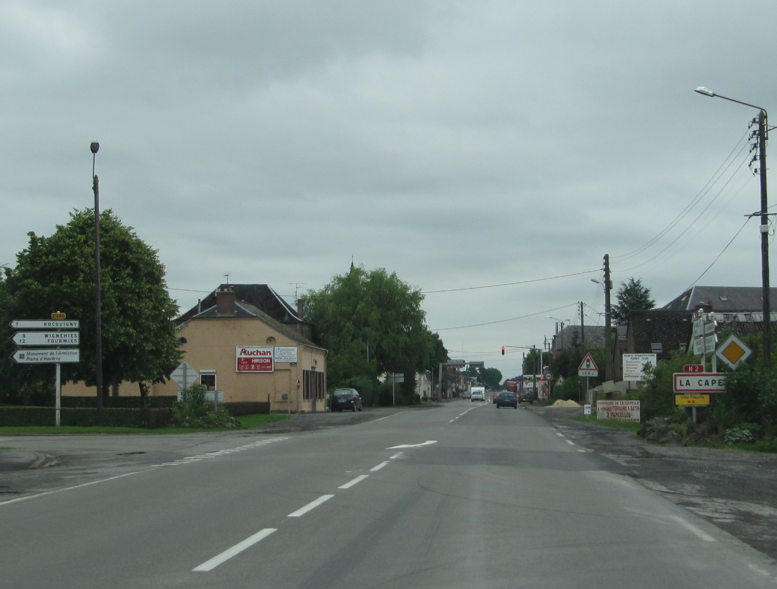 La Capelle (Aisne)